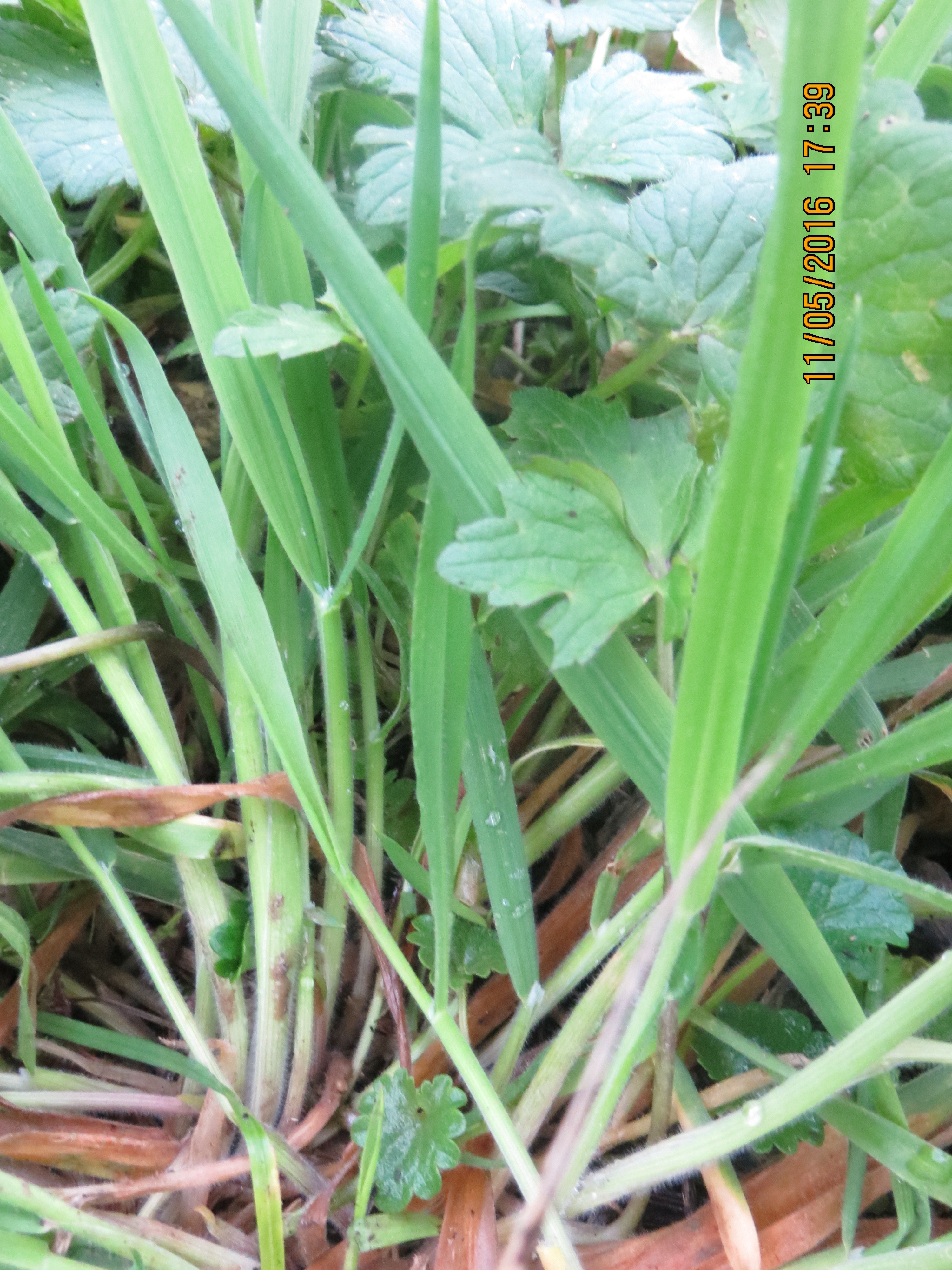 Elymus caninus?